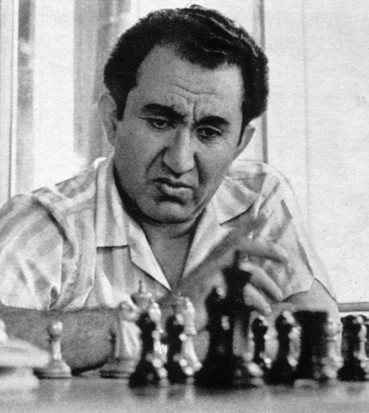 Tigran Petrosian